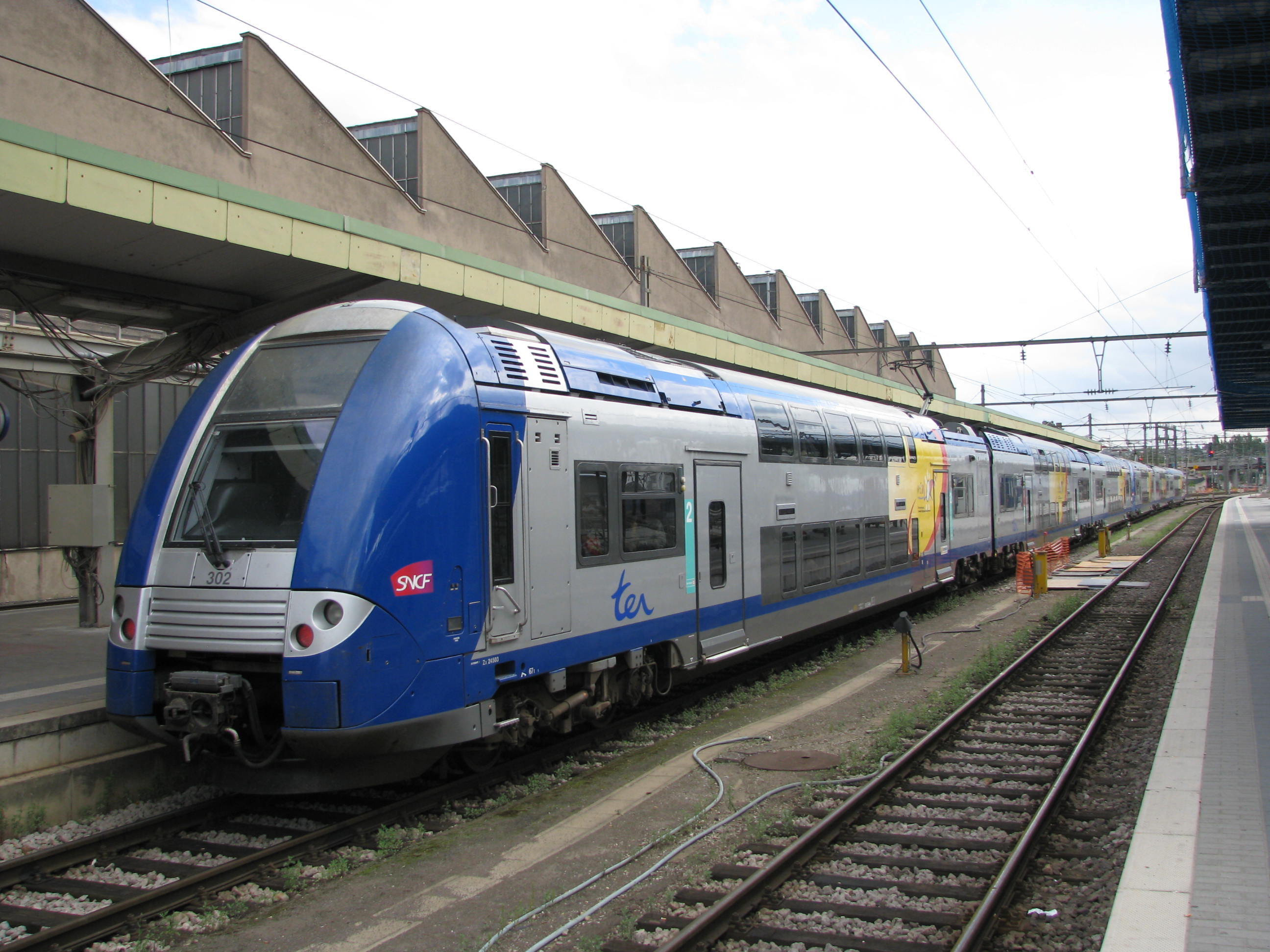 SNCF Class Z 24500 (ter) at Luxembourg train station